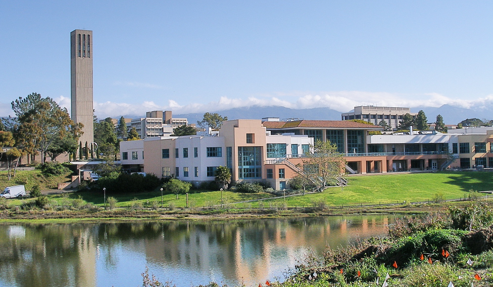 The University Center and Storke Tower at the University of California, Santa Barbara. This photograph was taken from the other side of the UCSB Lagoon. Photographed on April 2, en:2006 by user Coolcaesar.